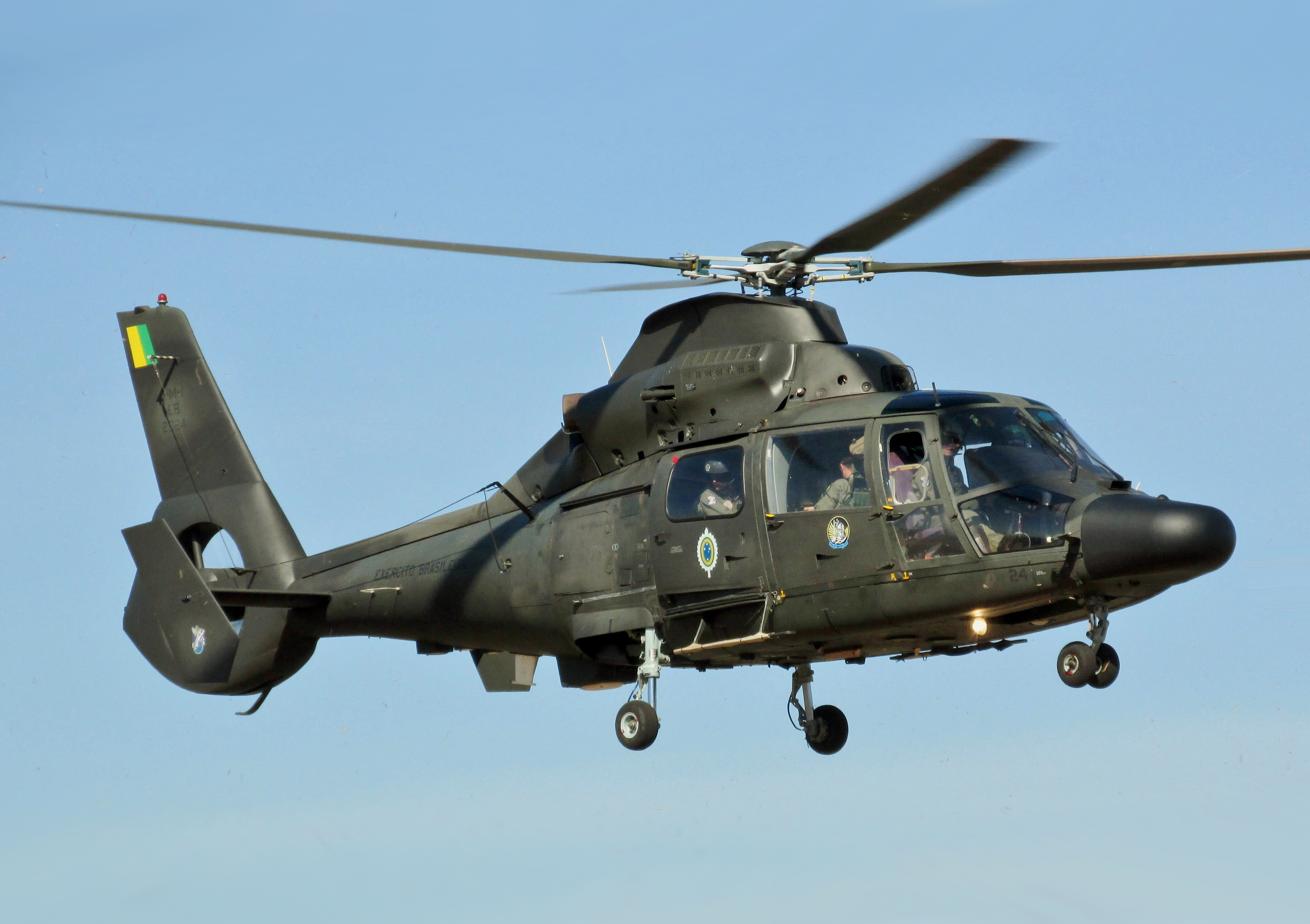 Helicóptero Pantera HM-1